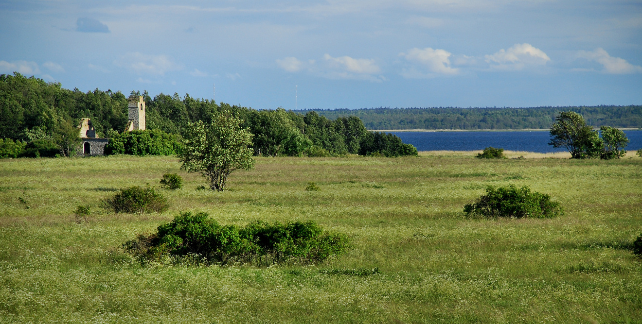 Abandoned church on Suur-PakriLatviešu: Pamesta baznīca Lielajā Pakri salā